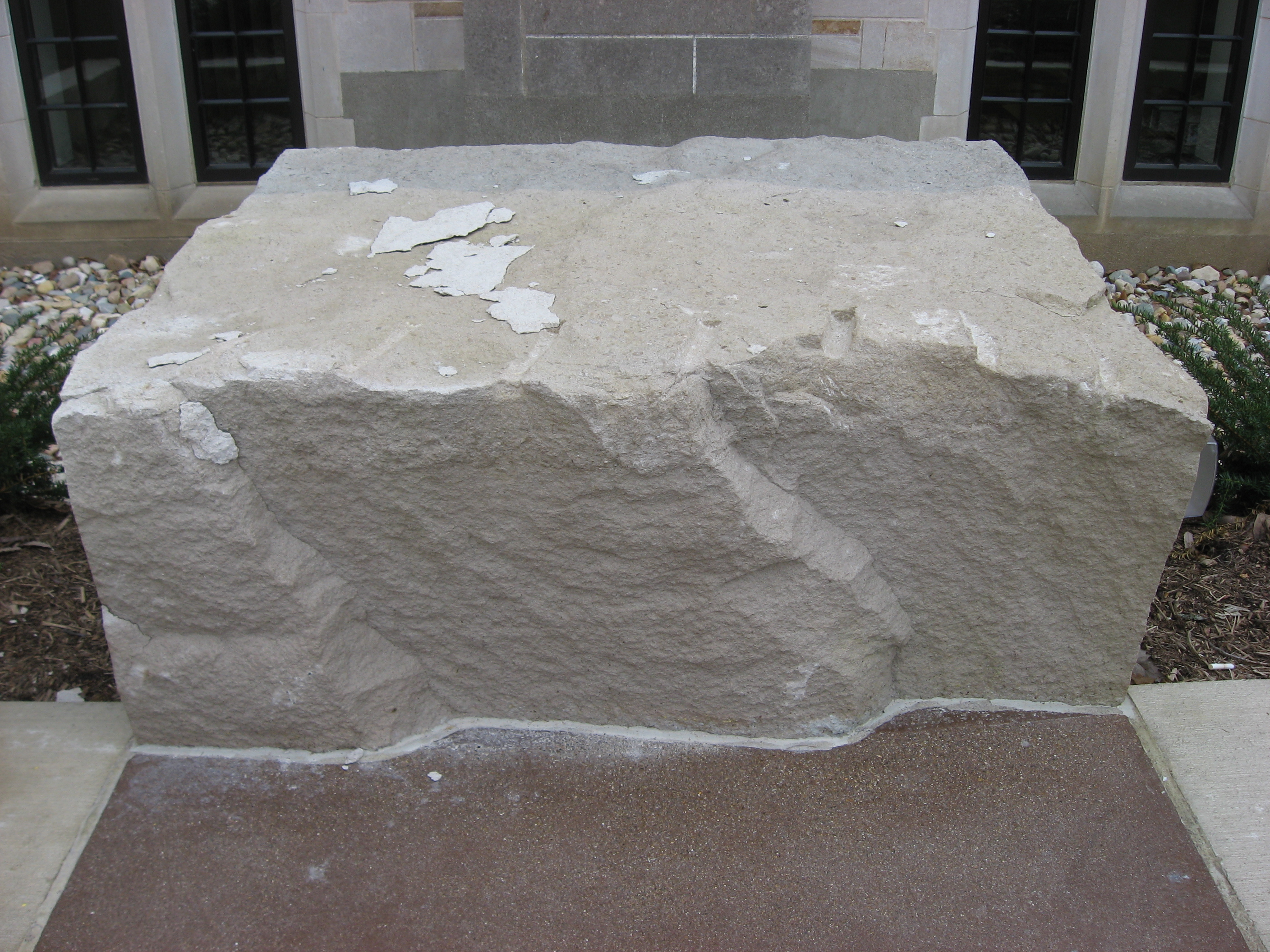 A block of limestone at a patio on the northern side of the Indiana Memorial Union.